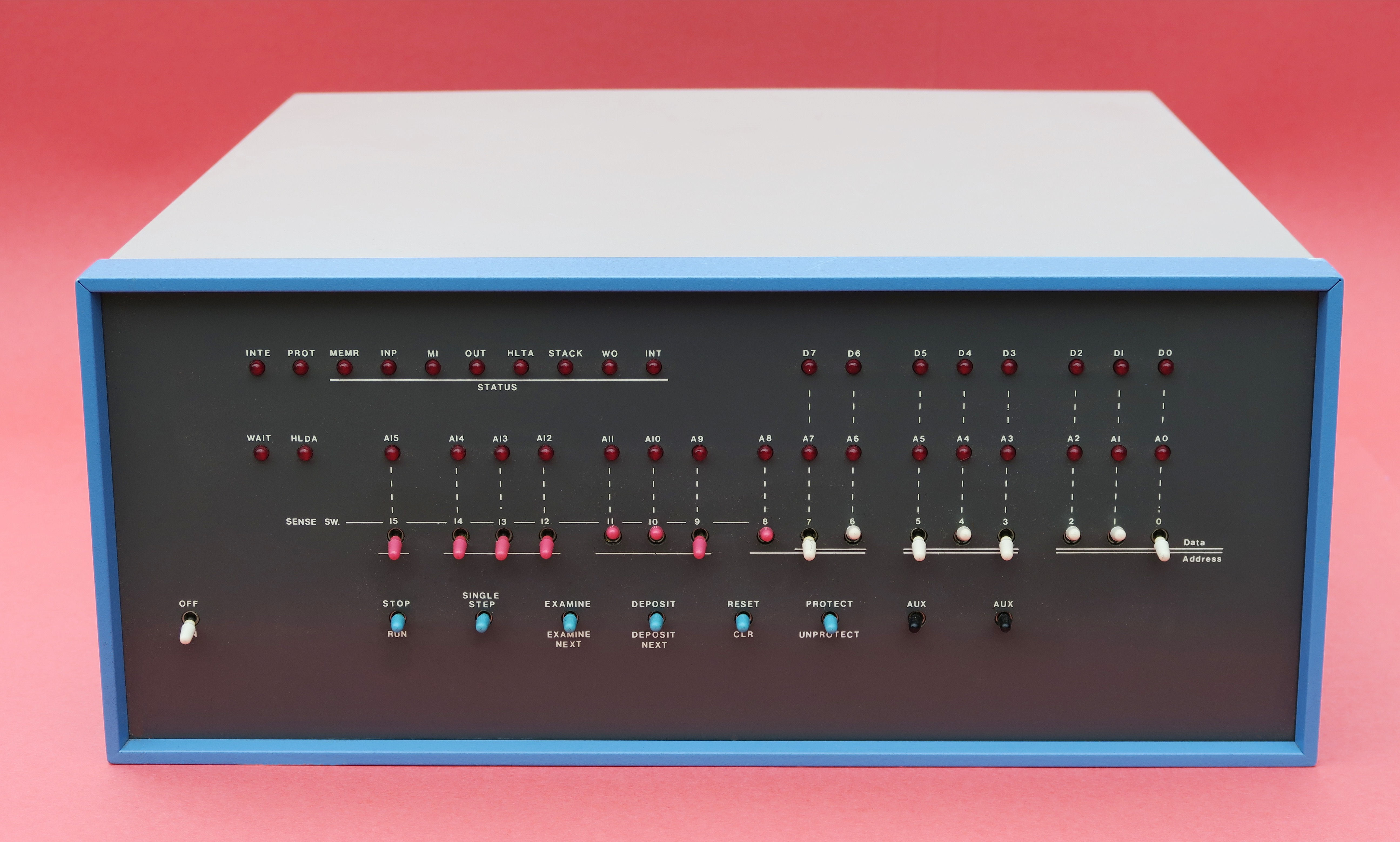 MITS Altair 8800 Computer. This machine was introduced on the front cover of the January 1975 issue of Popular Electronics magazine.